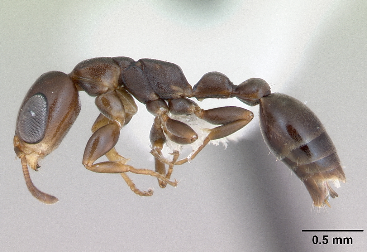 Profile view of ant Pseudomyrmex acanthobius specimen casent0173746.